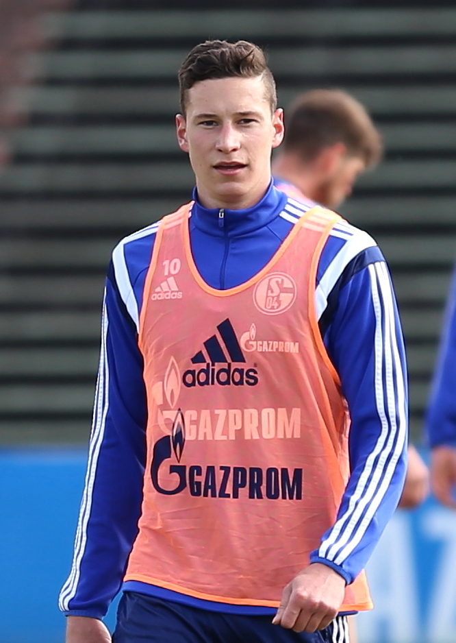 Julian Draxler at a Schalke 04 training on 16 April 2015.